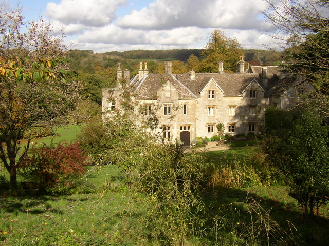 Boxwell Court – from the Monarchs Way